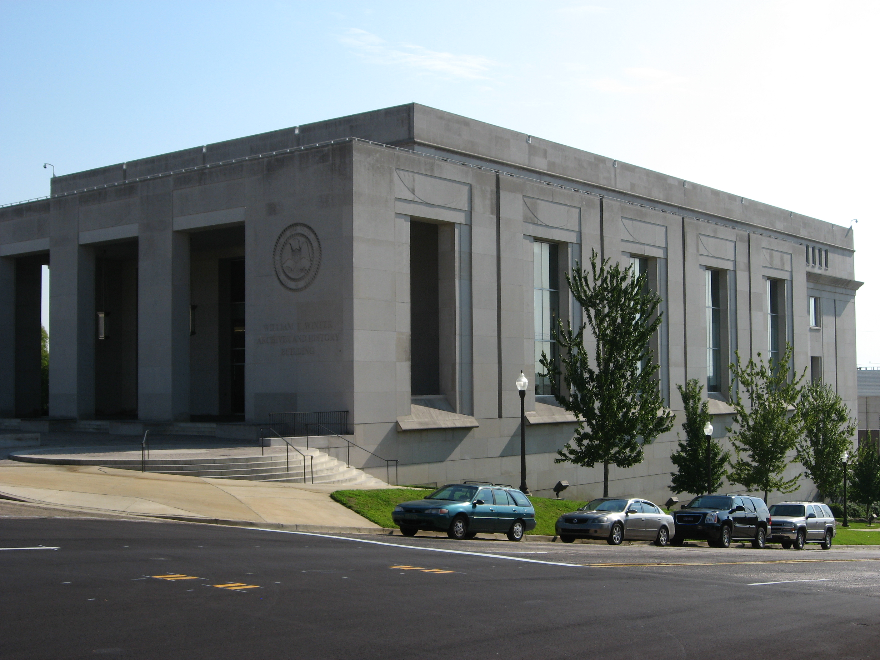 The William F. Winter Archives and History Building located in Jackson, Mississippi, USA.